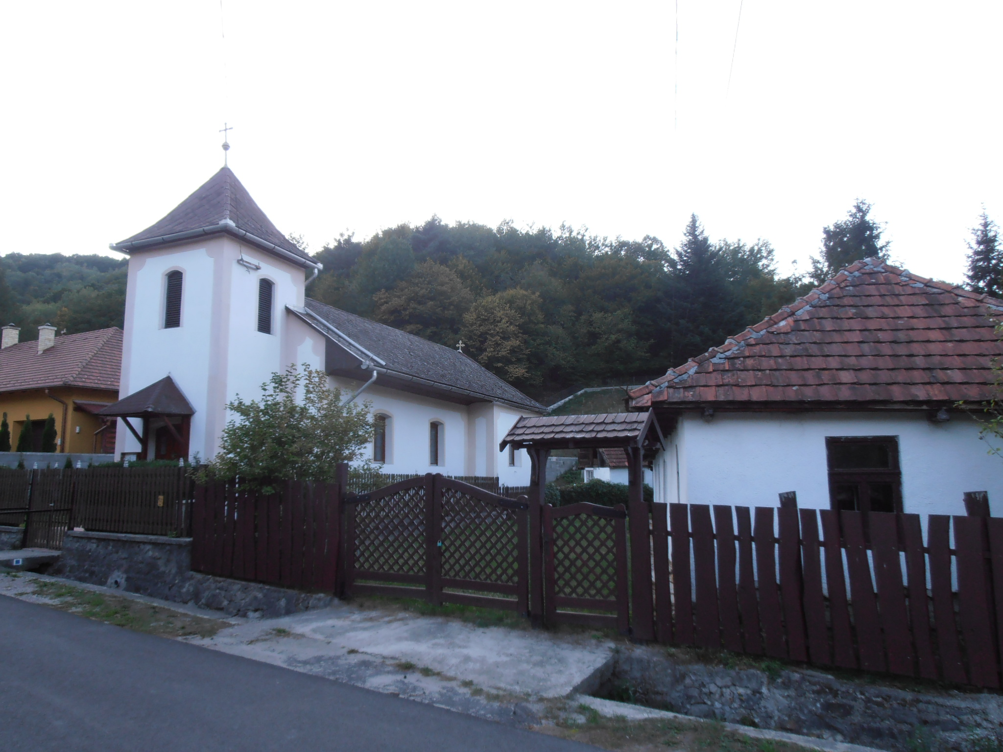 Catholic temple in Nagyhuta, Hungary A nagyhutai Szent Anna katolikus templom